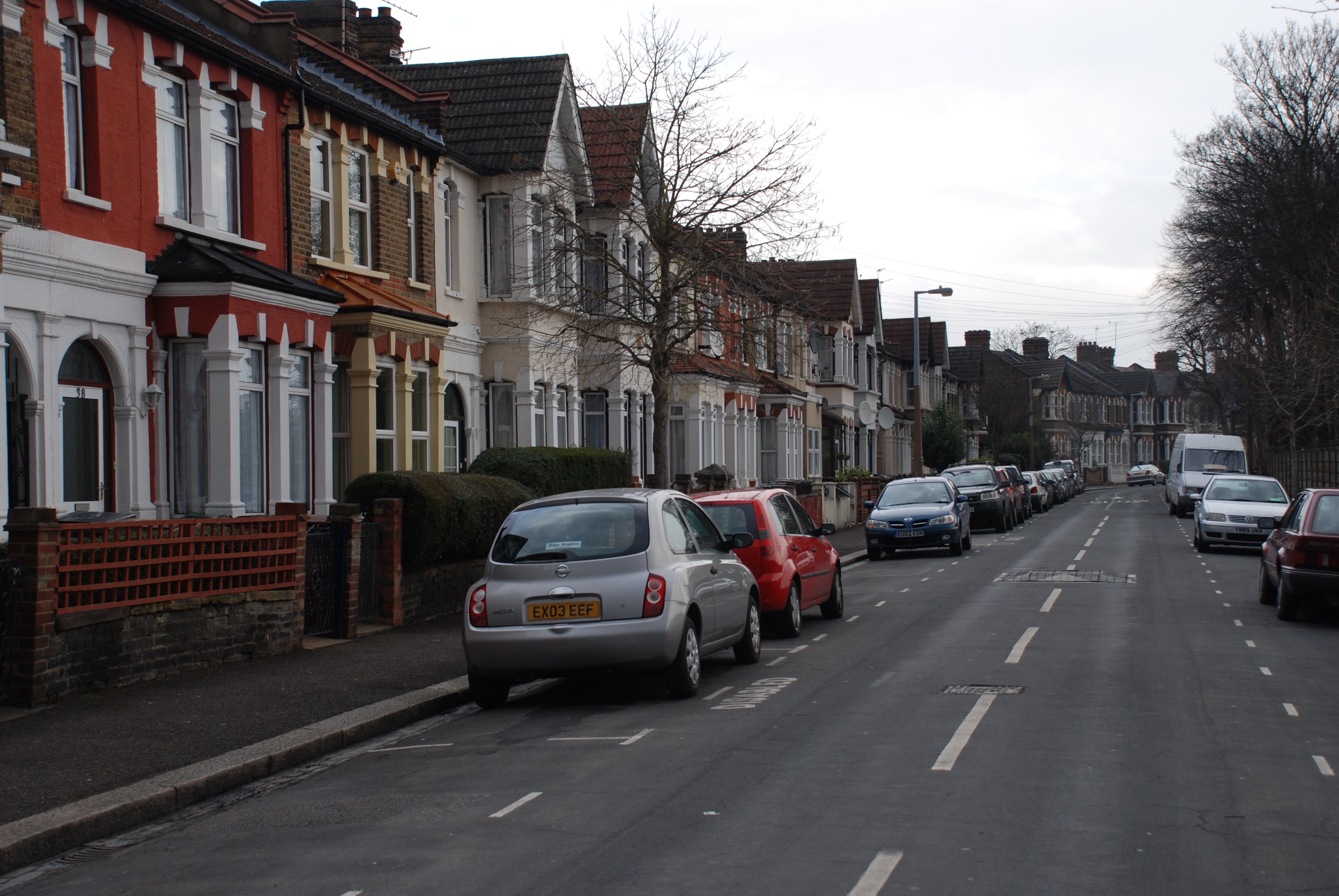 Terraced houses along Brewster Road in Leyton, east London